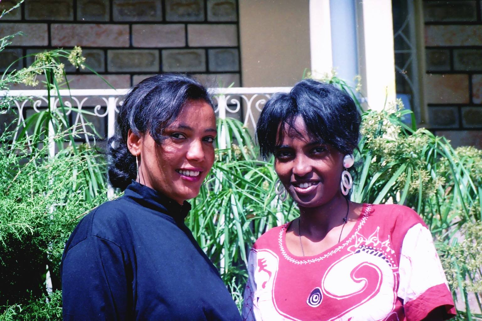 Two Ethiopian women, Azeb and Meseret.